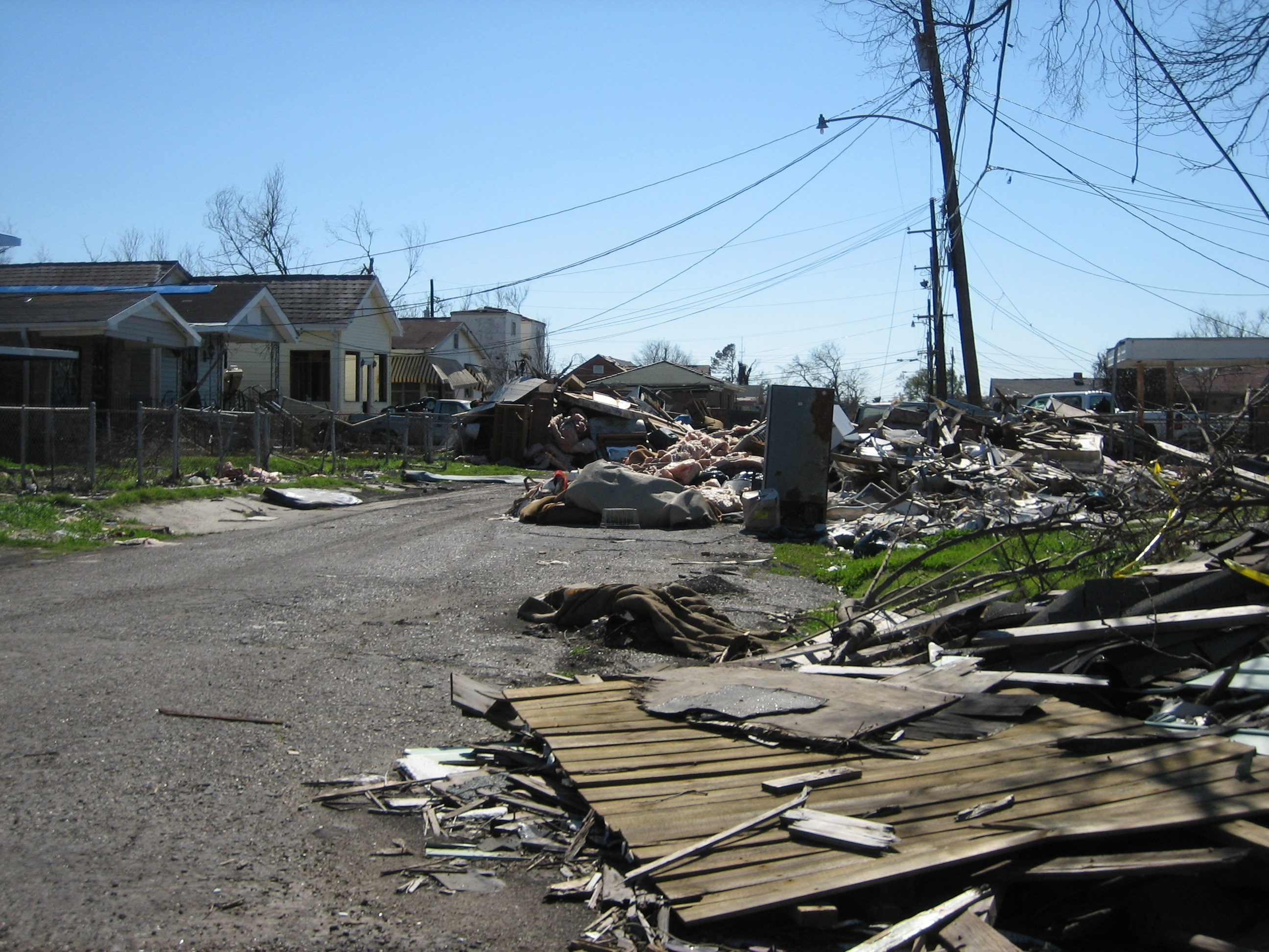 New Orleans after Hurricane Katrina: Storm surge devastated Lower 9th Ward residential neighborhood.